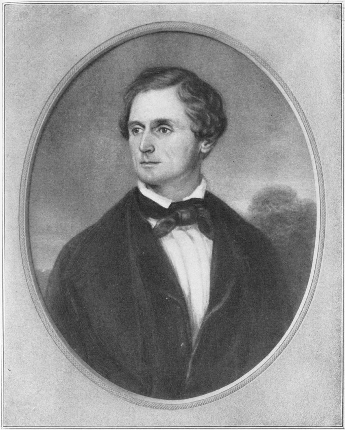 Black and white reproduction of "miniature" painting of an apparently young Jefferson Davis in an oval frame.